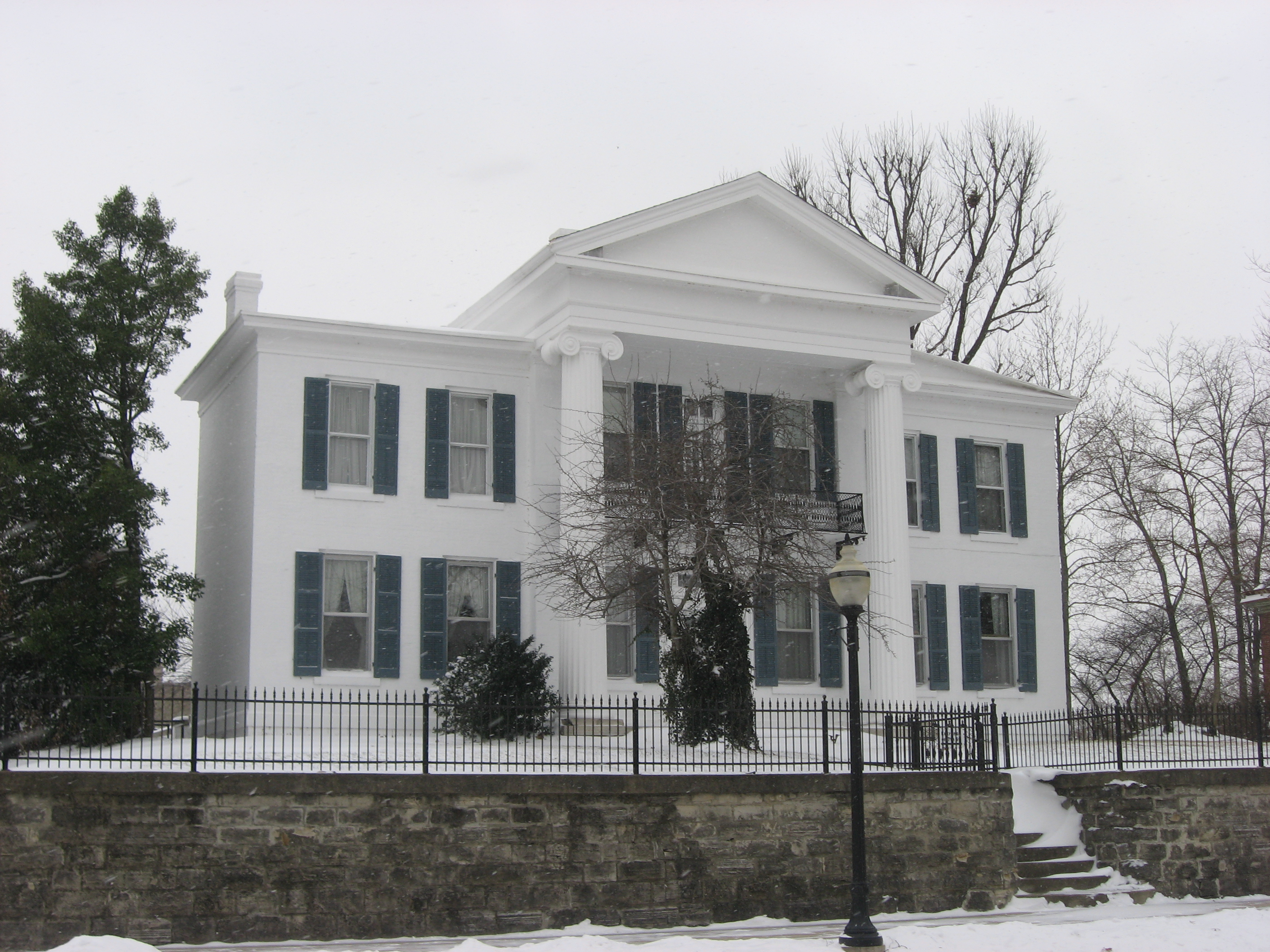 Front and eastern side of the Pollard-Nelson House, located on the southwestern corner of the junction of Seventh and Market Streets in Logansport, Indiana, United States. Built in 1845, it is listed on the National Register of Historic Places.